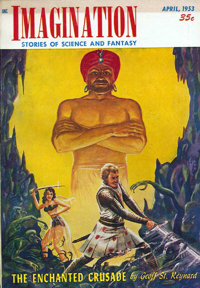 Cover of Imagination, April 1953